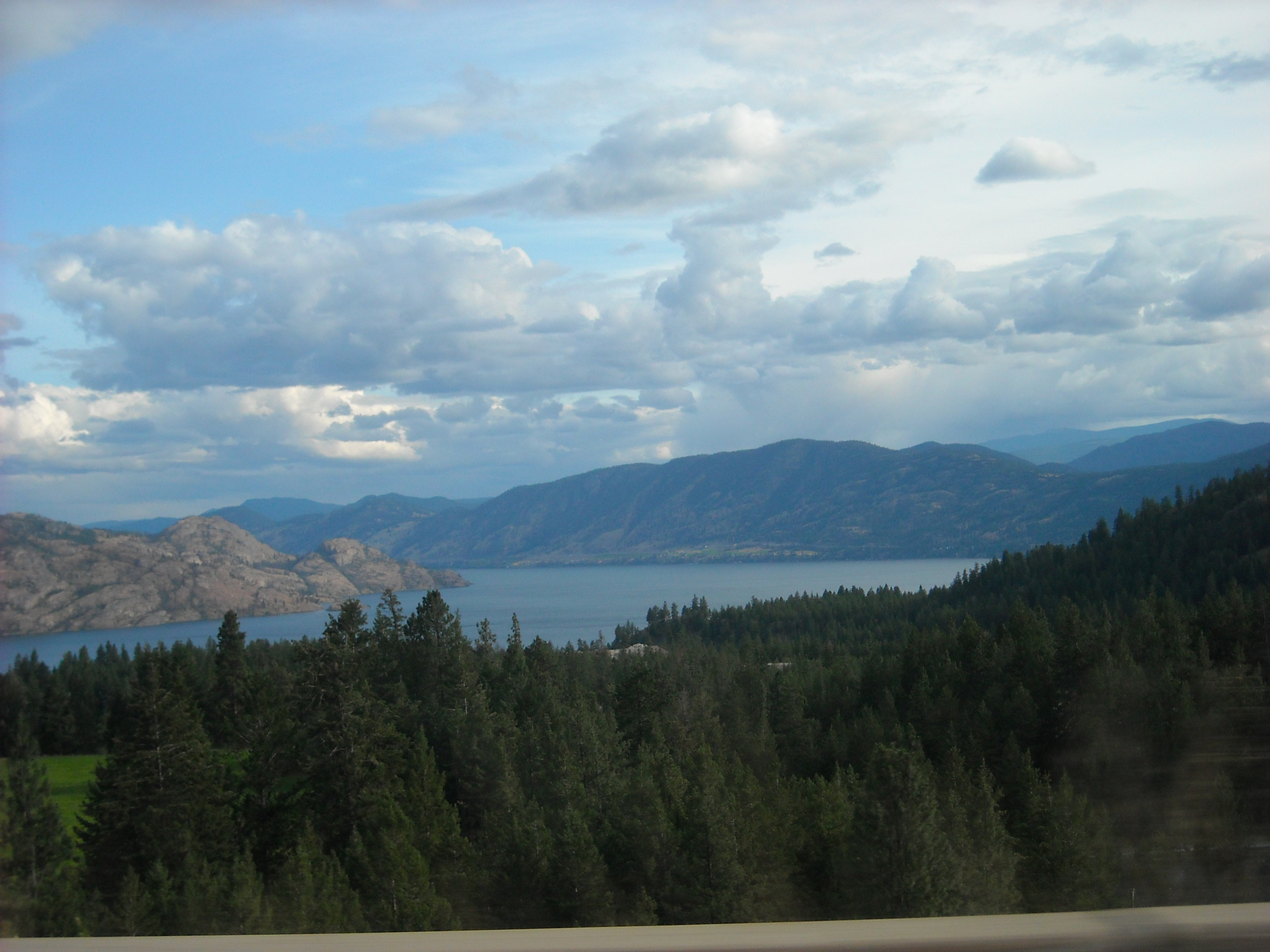 A view of Okanagan Lake from Highway 97C near Trepanier. For additional details on this image, see File talk:Okanagan Lake.jpg.